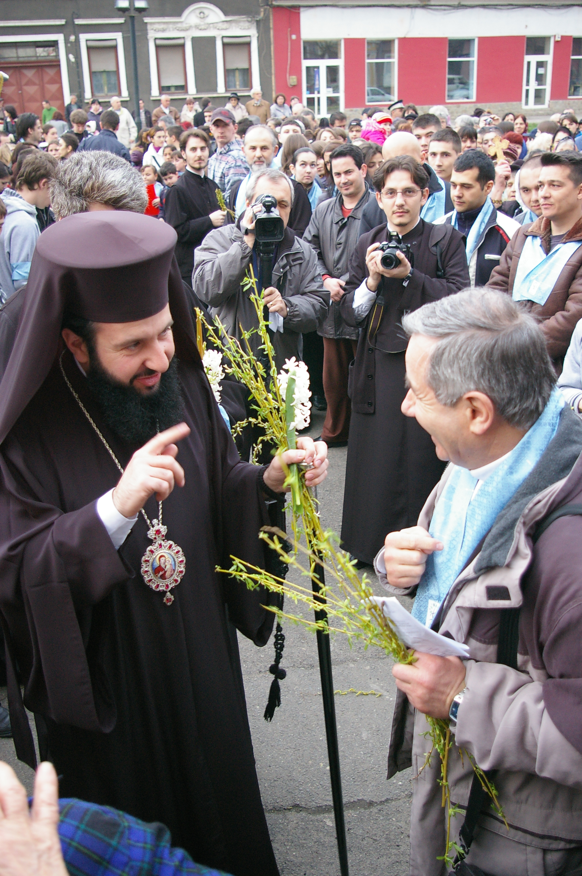 Pr. Lucian Mic at the Ecumenical Palm Sunday Procession in Reşiţa - March 28 2010 - before the event starts